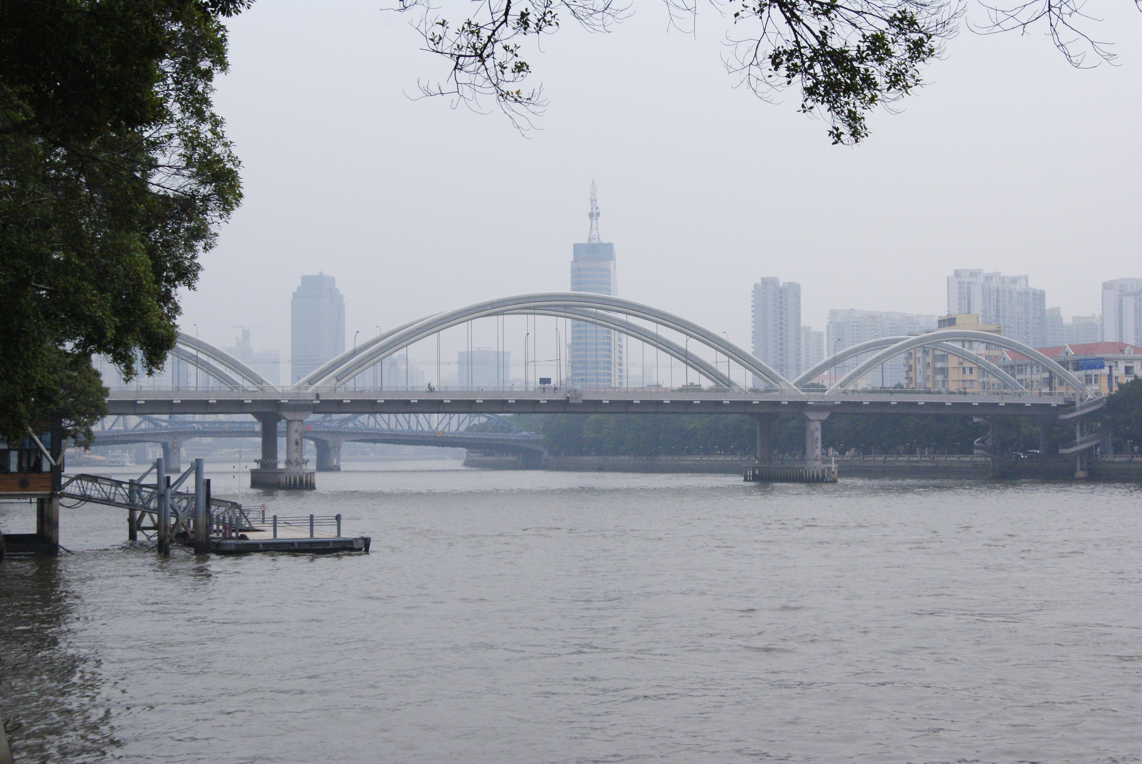 Jiefang_Bridge of guangzhou,china